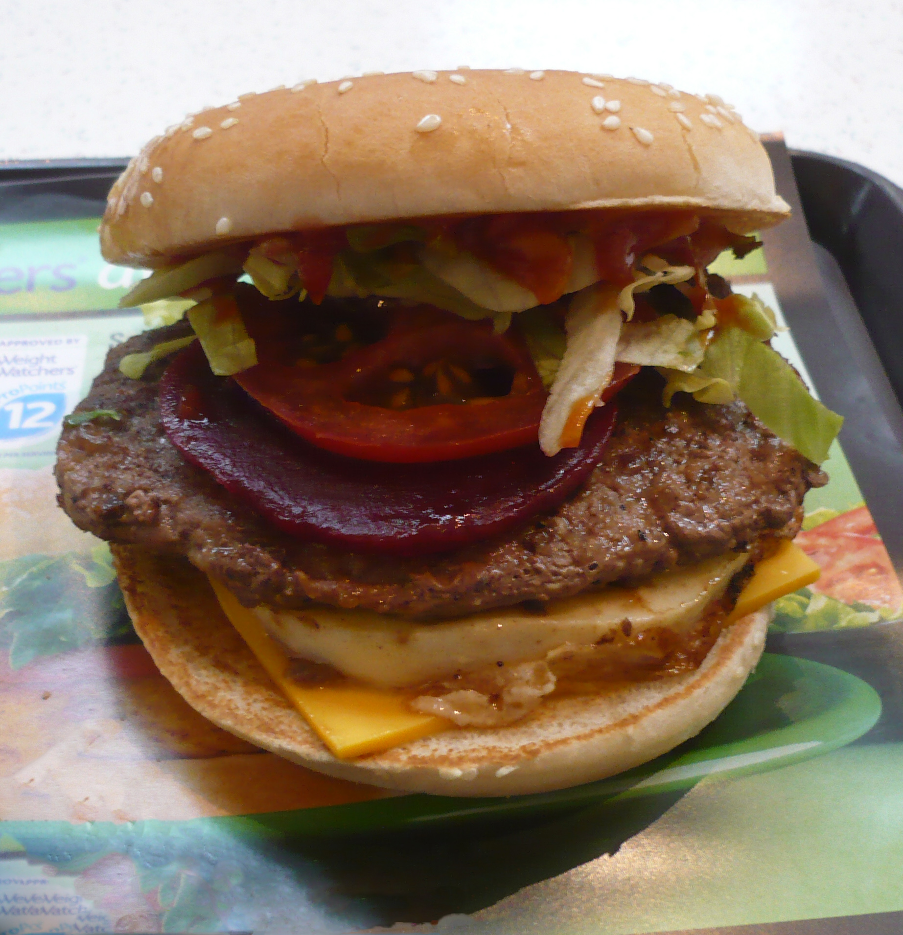 A McDonald's Kiwiburger, sold at McDonald's restaurants in New Zealand. It consists of a 4oz (113g) beef patty, griddle egg, cheese, lettuce, tomato, beetroot, ketchup and mustard on a toasted bun. Taken at the McDonald's restaurant on George Street, Dunedin on 15 August 2011.